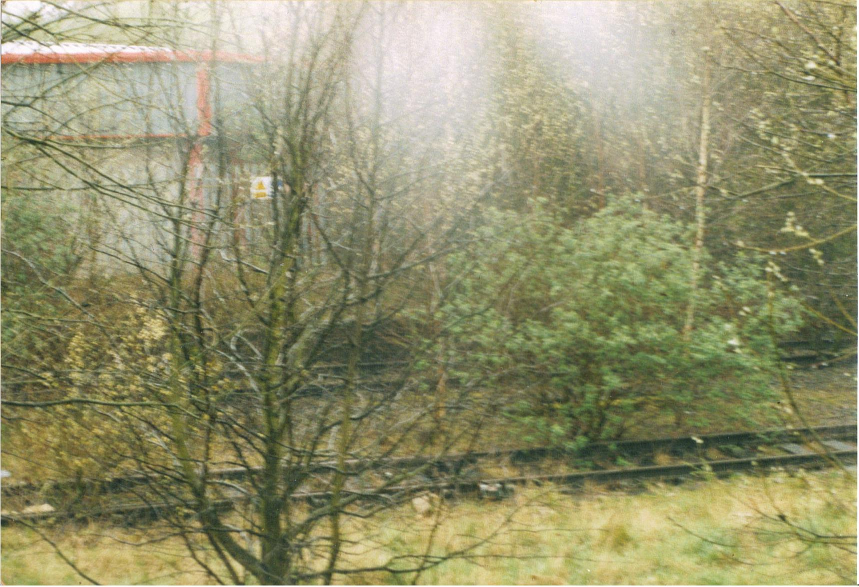 A picture I took of Wednesbury Town railway station in 2003.